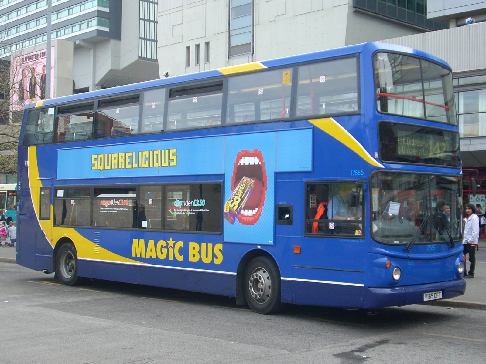 Stagecoach Manchester 17655, a low-floor Dennis Trident 2 with Alexander ALX400 bodywork, picks up passengers from Piccadilly Gardens before heading out for the Wilmslow Road bus corridor. It has recently been reassigned to Magic Bus services, wearing a revised livery featuring yellow and dark blue.